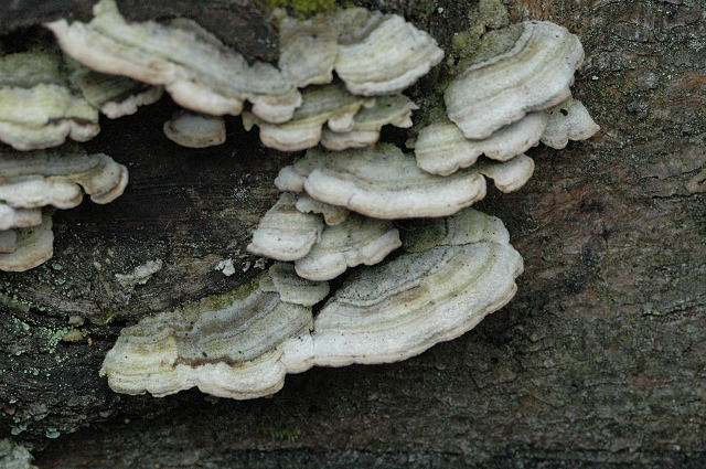 Trichaptum abietinum from Commanster, Belgium. The determination of the species shown in this picture has been verified.